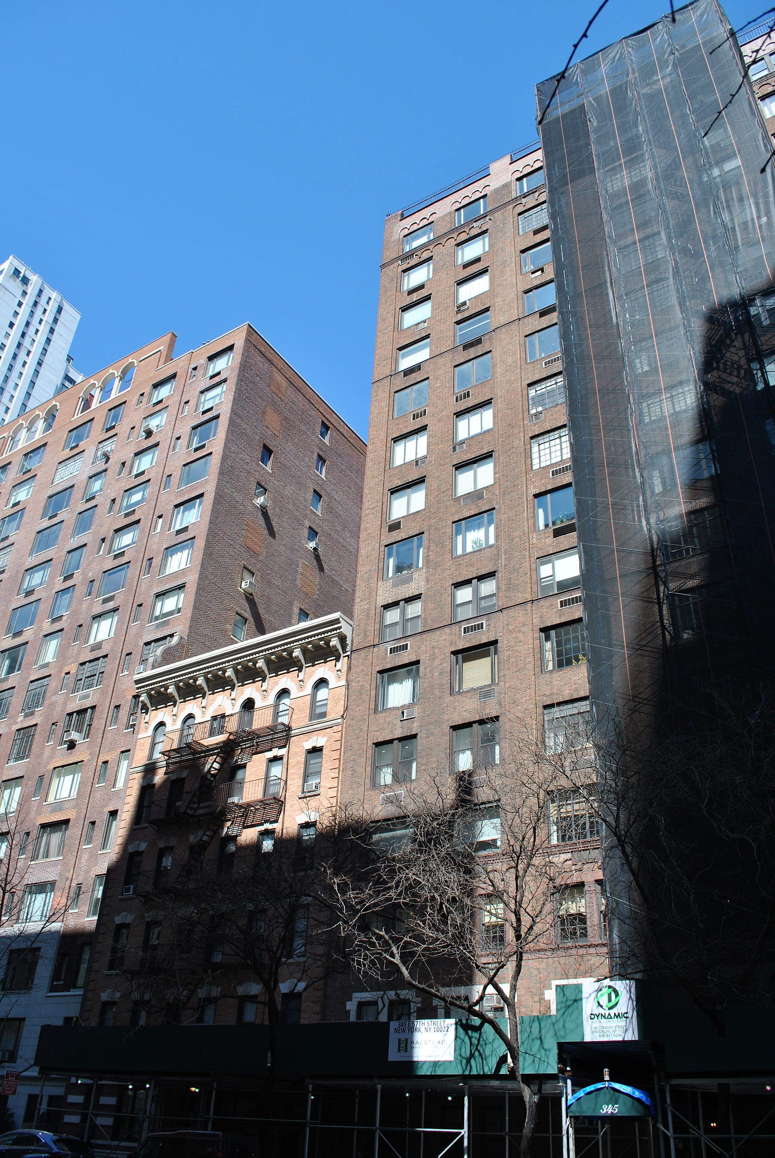 Image originally published in Queer Places: Retracing the Steps of LGBTQ people around the World Authored by Elisa Rolle